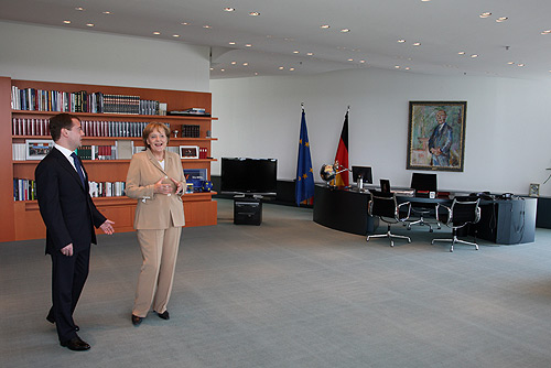 Angela Merkel with Dmitry Medvedev in her office in the Federal Chancellery, Berlin. The painting above her desk is of Konrad Adenauer by Oskar Kokoschkas.